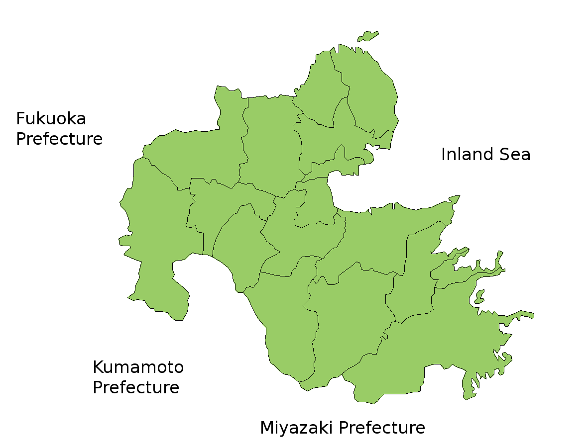 Map of Oita Prefecture, Japan. Thanks to Aoki Shigenobu and [1]. Colors from Image:TokyoMapCurrent.png by User:Fg2.